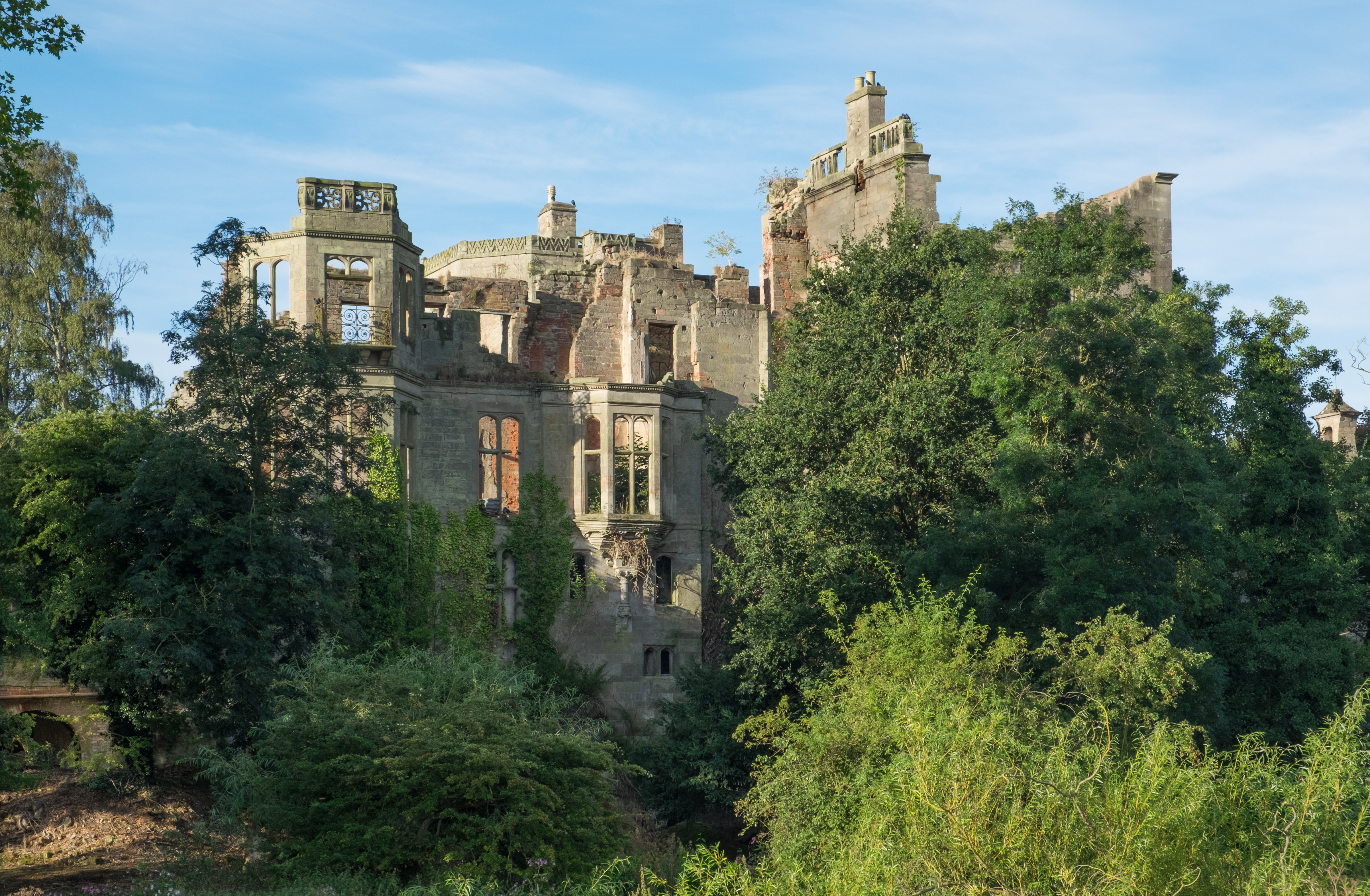 Guy's Cliffe House, Warwick. The ruined house dates from 1751 and is a Grade II Listed Building in England.